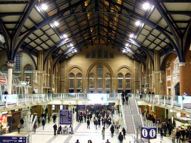 Liverpool Street railway station, London, England. A night time view of the station concourse, see it in daylight here TQ3381 : Liverpool Street Station.